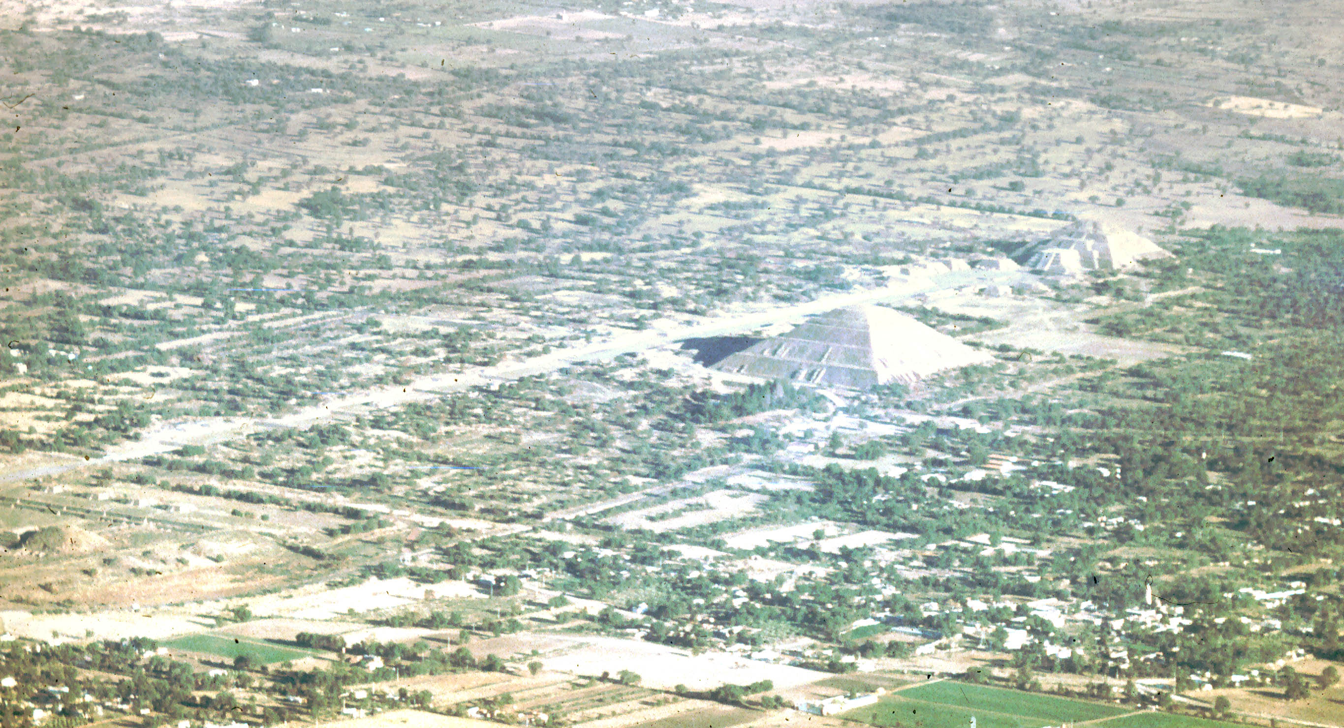 Teotihuacan, Mexico, seen from the air.